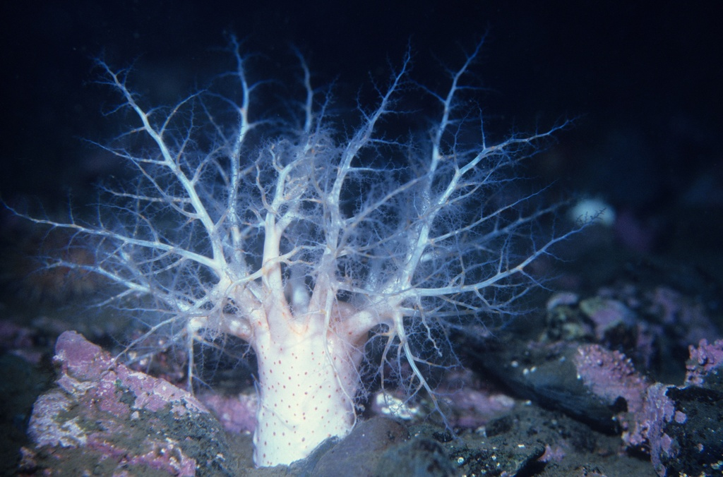 Sea cucumber, Psolus phantapus, Newfoundland